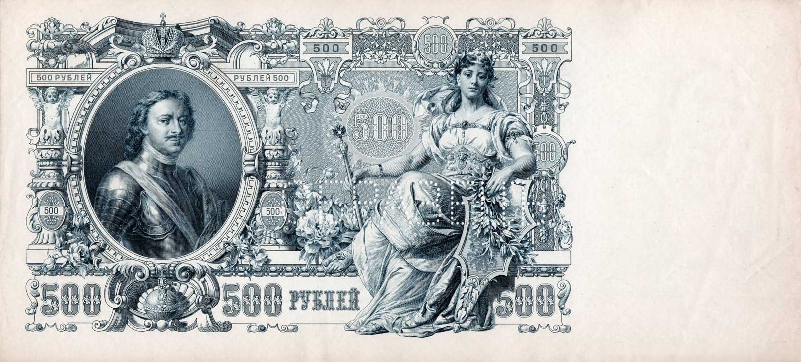 Russian Empire banknote 500 rubles. Version of 1912 year. Front. With Tzar Peter I portrait.